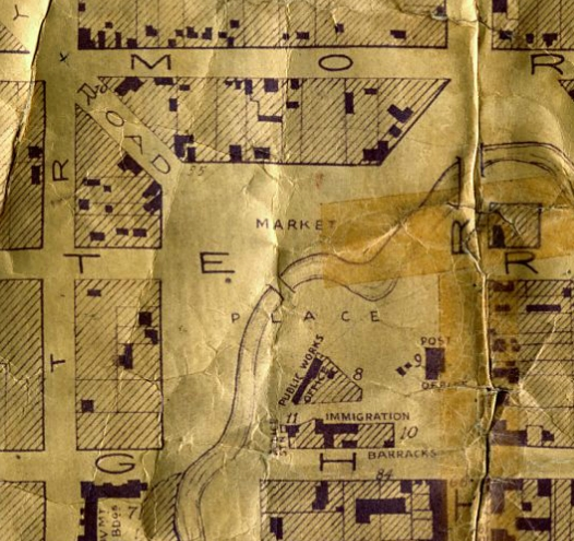 Market Square in Christchurch, 1862